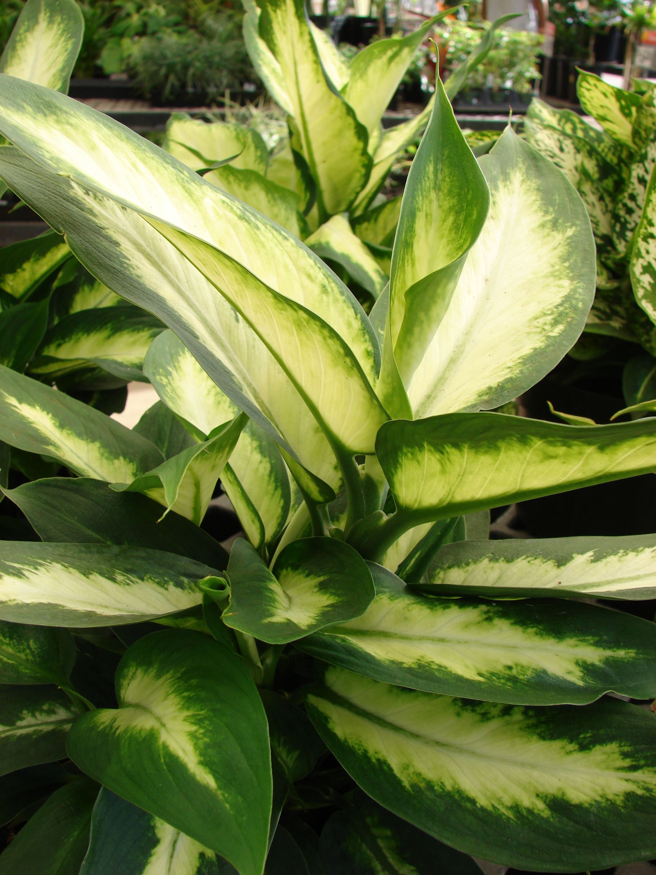 Dieffenbachia maculata (Camille leaves). Location: Maui, Walmart Kahului